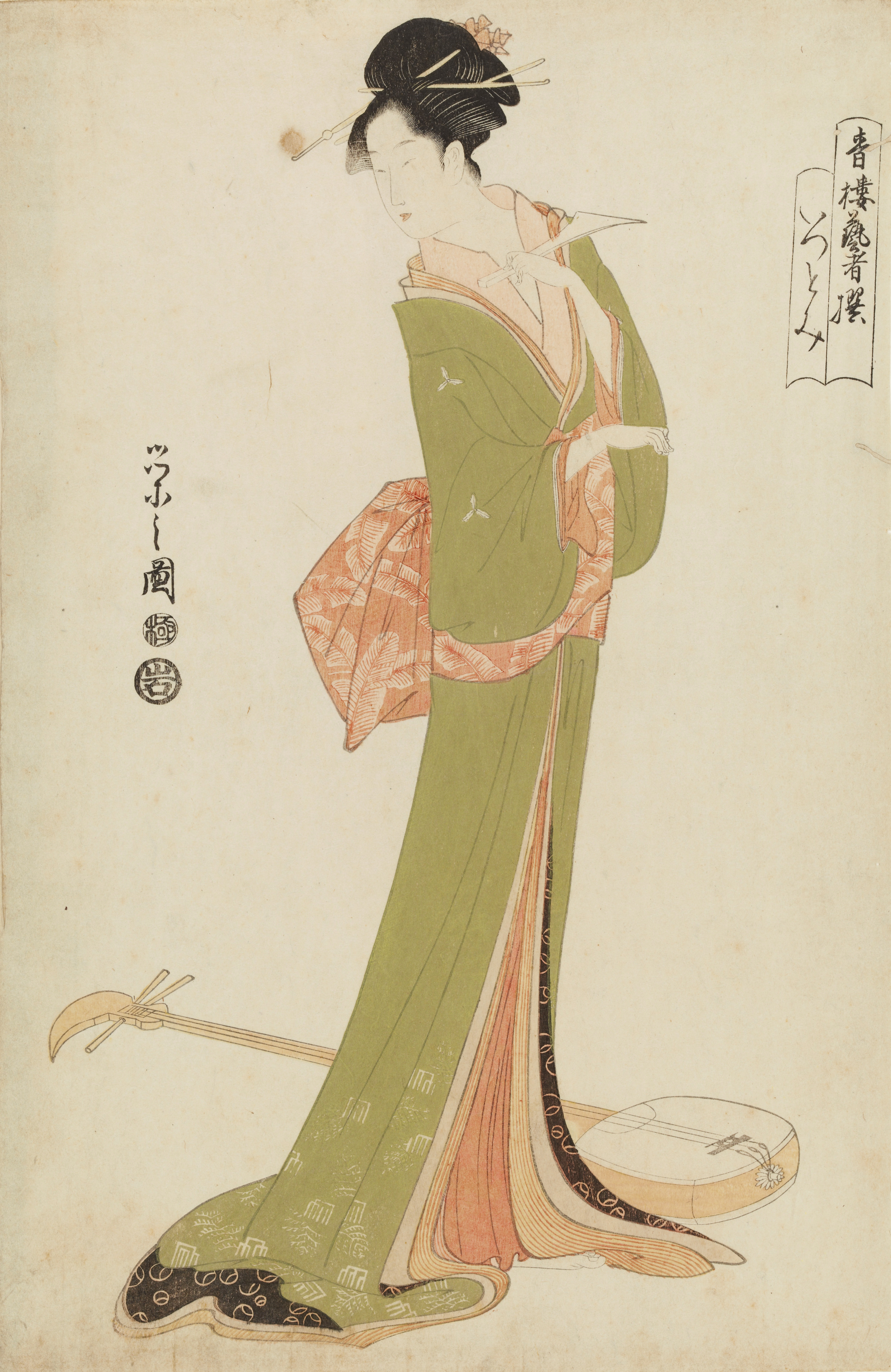 Popular Geisha at the Pleasure Quarters: Itsutomi, by Chobunsai Eishi, Tokyo National Museum, Japan